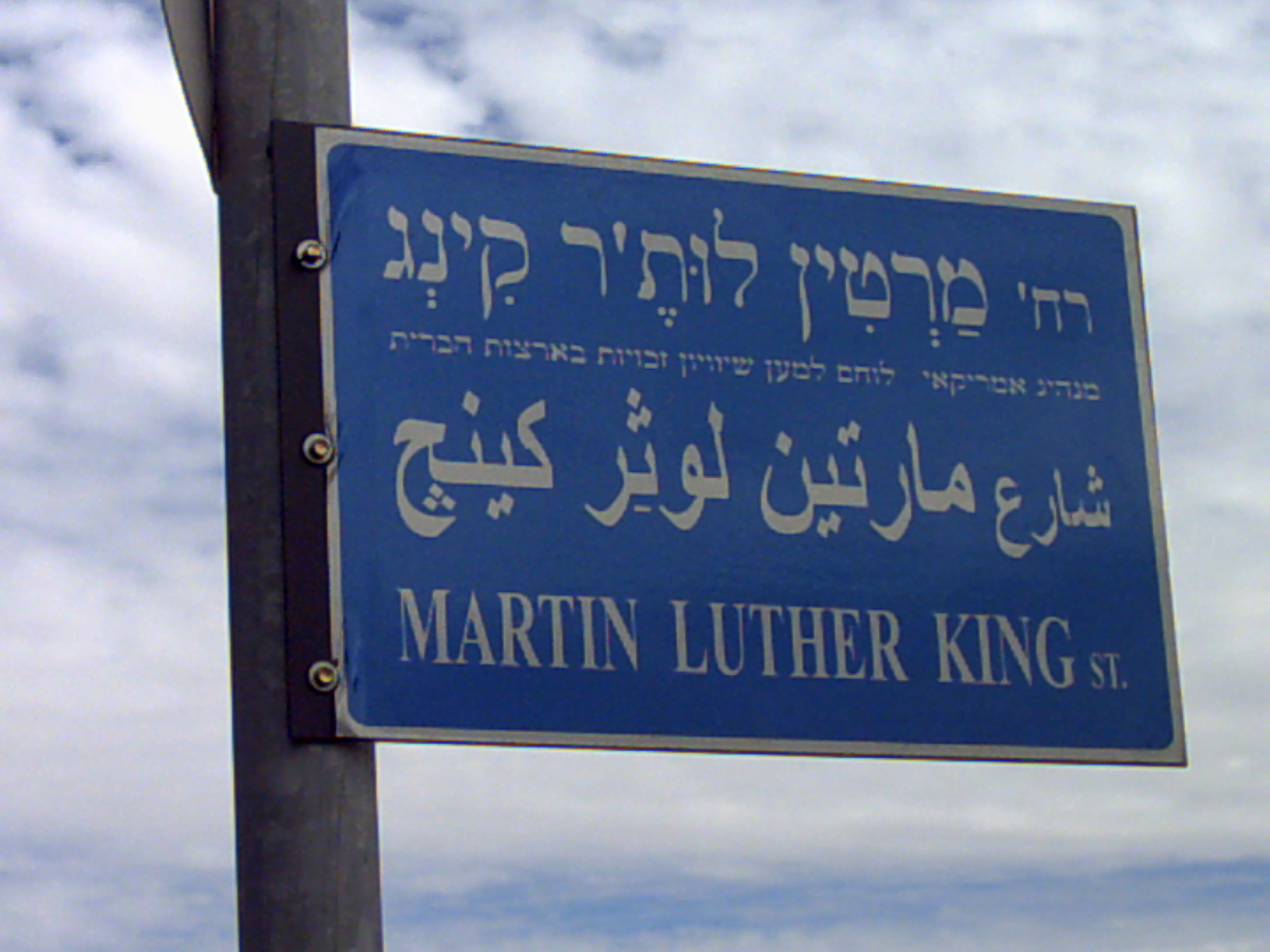 Martin Luther King street in The German Colony in Jerusalem, Israel, in memory of King. The name is written in three languages: Hebrew, English, Arabic. The letter چ, which means "ch" [tʃ] in Persian, is here used to transcribe "g" in non-Egyptian Arabic...